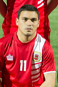 Gibraltarian football player, Robert Guilling